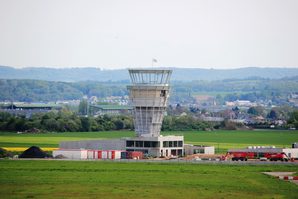 The new control tower being built